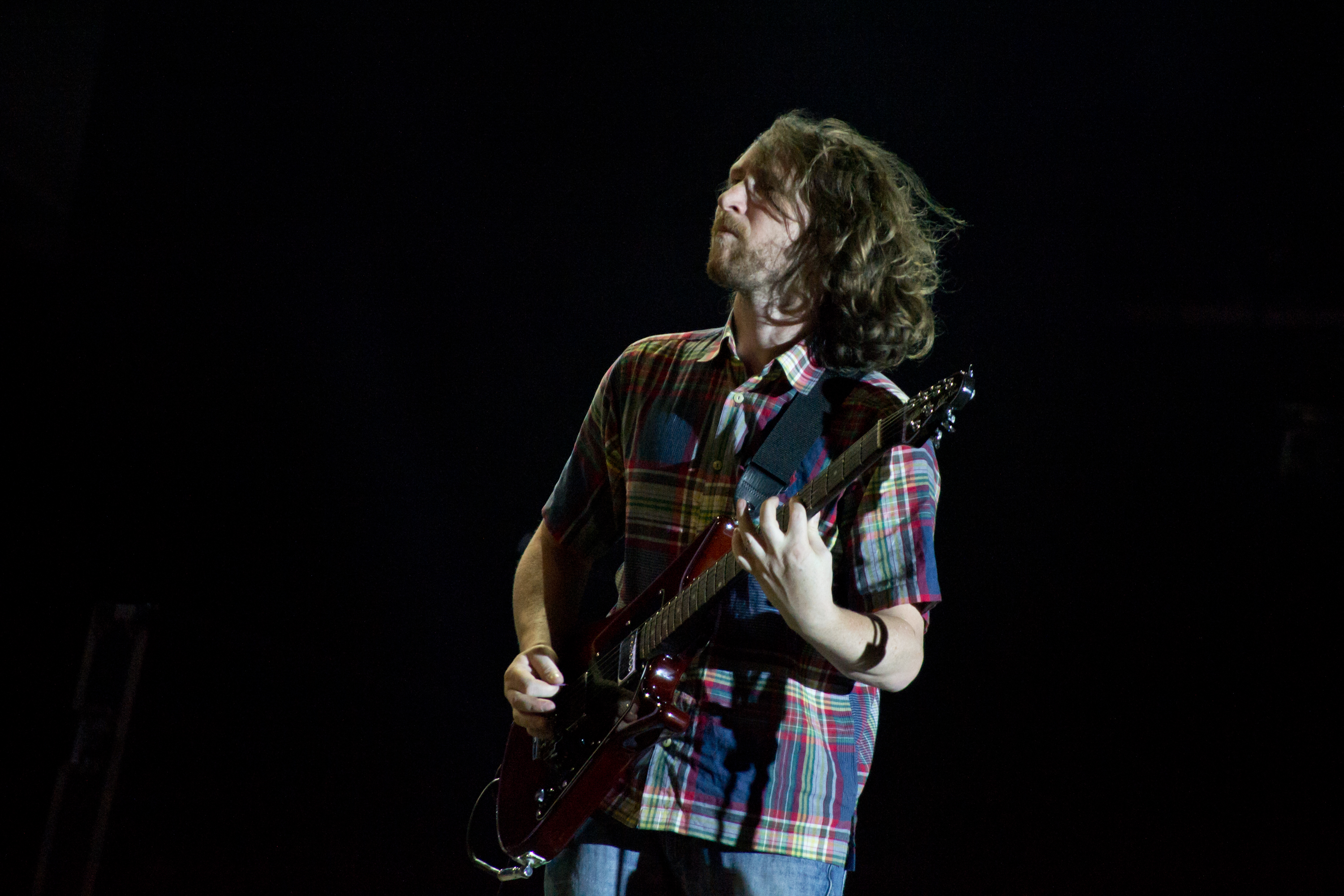 Incubus in Rock in Rio Madrid 2012.